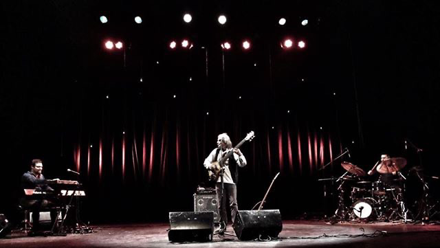 Holman Ethnojazz Trio performing in 2018